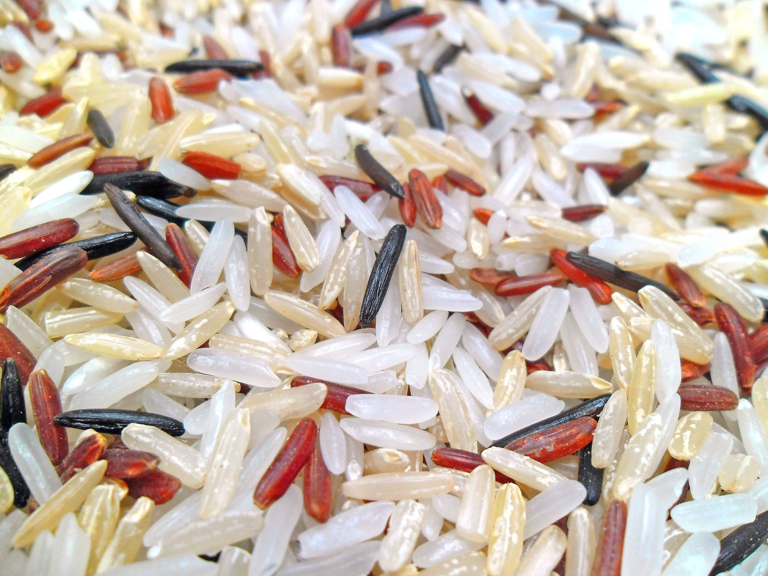 The four, main, common forms of consumed rice, Brown Rice, Red Rice, Thai White Rice, and Black wild rice.